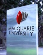 Macquarie University sign